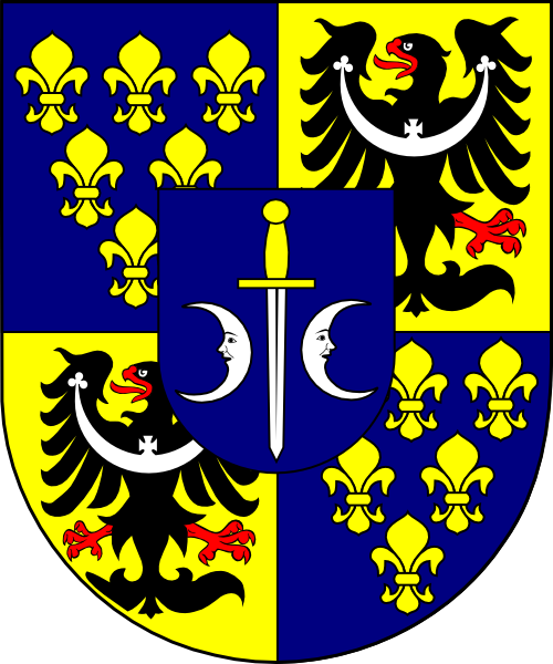 Coat of arms (shield only) of Emanuel von Schimonsky, bishop of Wrocław, Poland (1824 - 1832). Tinctures based on this